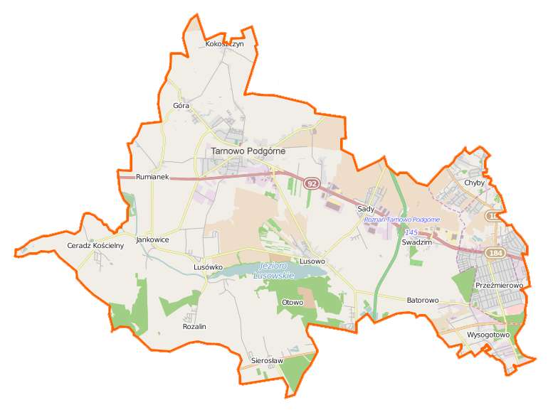 Map of Gmina Tarnowo Podgórne, Poland This map of Tarnowo Podgórne (gmina) was created from OpenStreetMap project data, collected by the community. This map may be incomplete, and may contain errors. Don't rely solely on it for navigation. Border coordinates52.510016.5464←↕→16.813052.3892